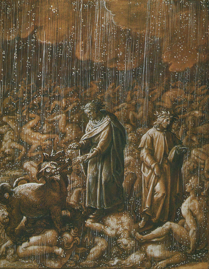 Illustration of Dante's Inferno, Canto 6